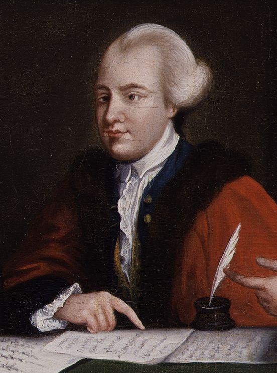 Cropped detail from John Glynn, John Wilkes and John Horne Tooke, given to the National Portrait Gallery, London in 1922.